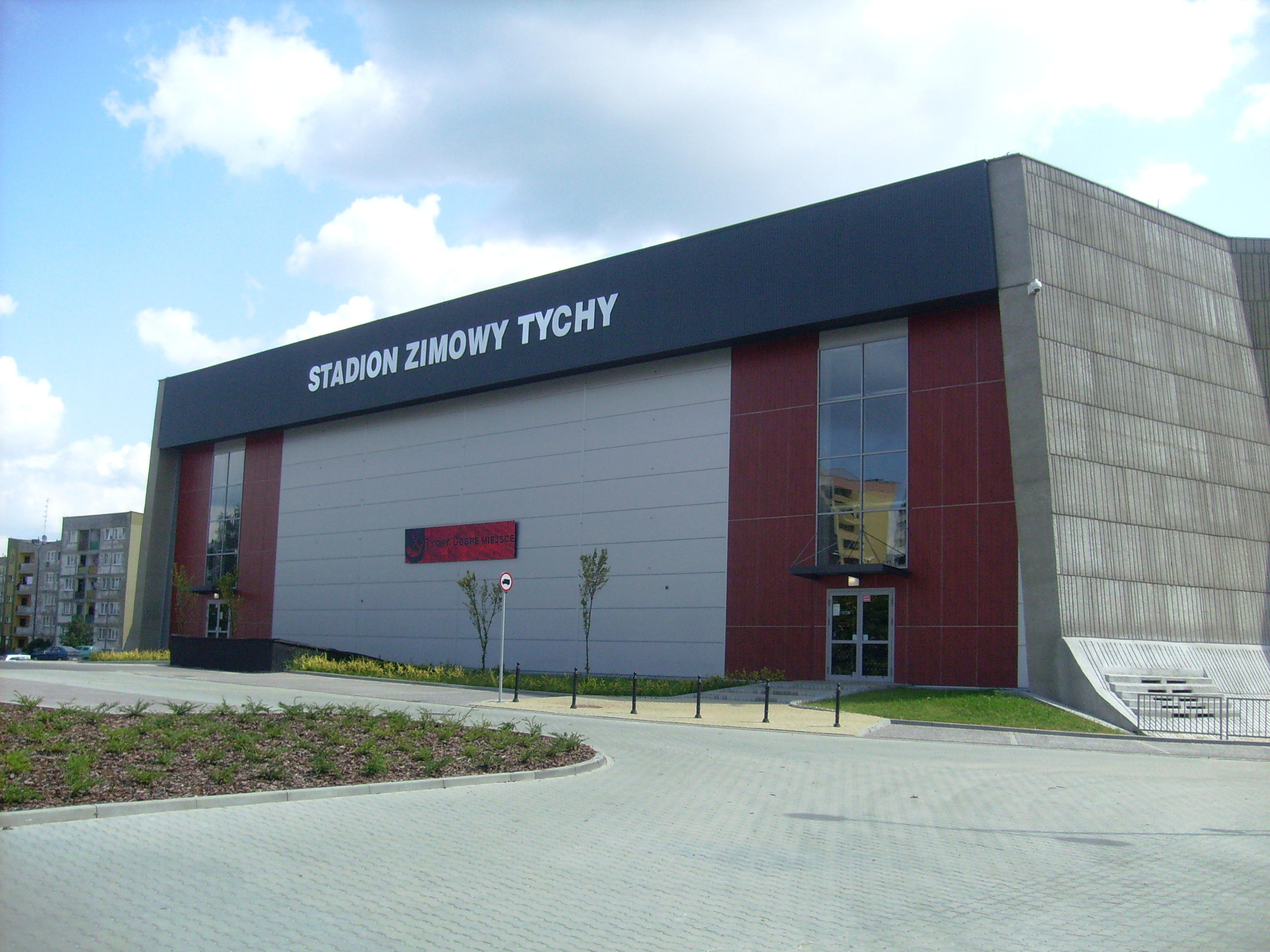 Ice rink in Tychy